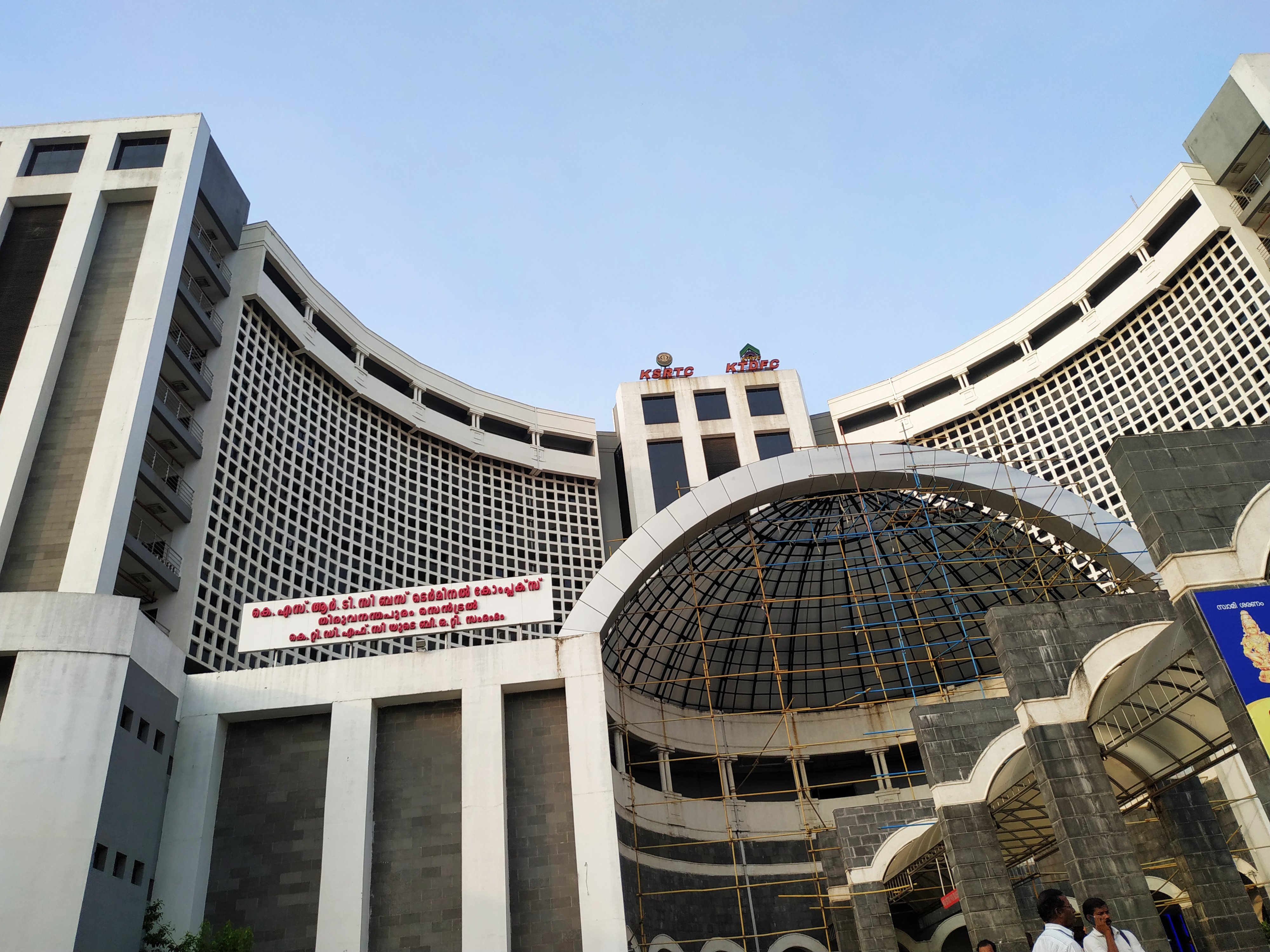 KSRTC Thiruvananthapuram